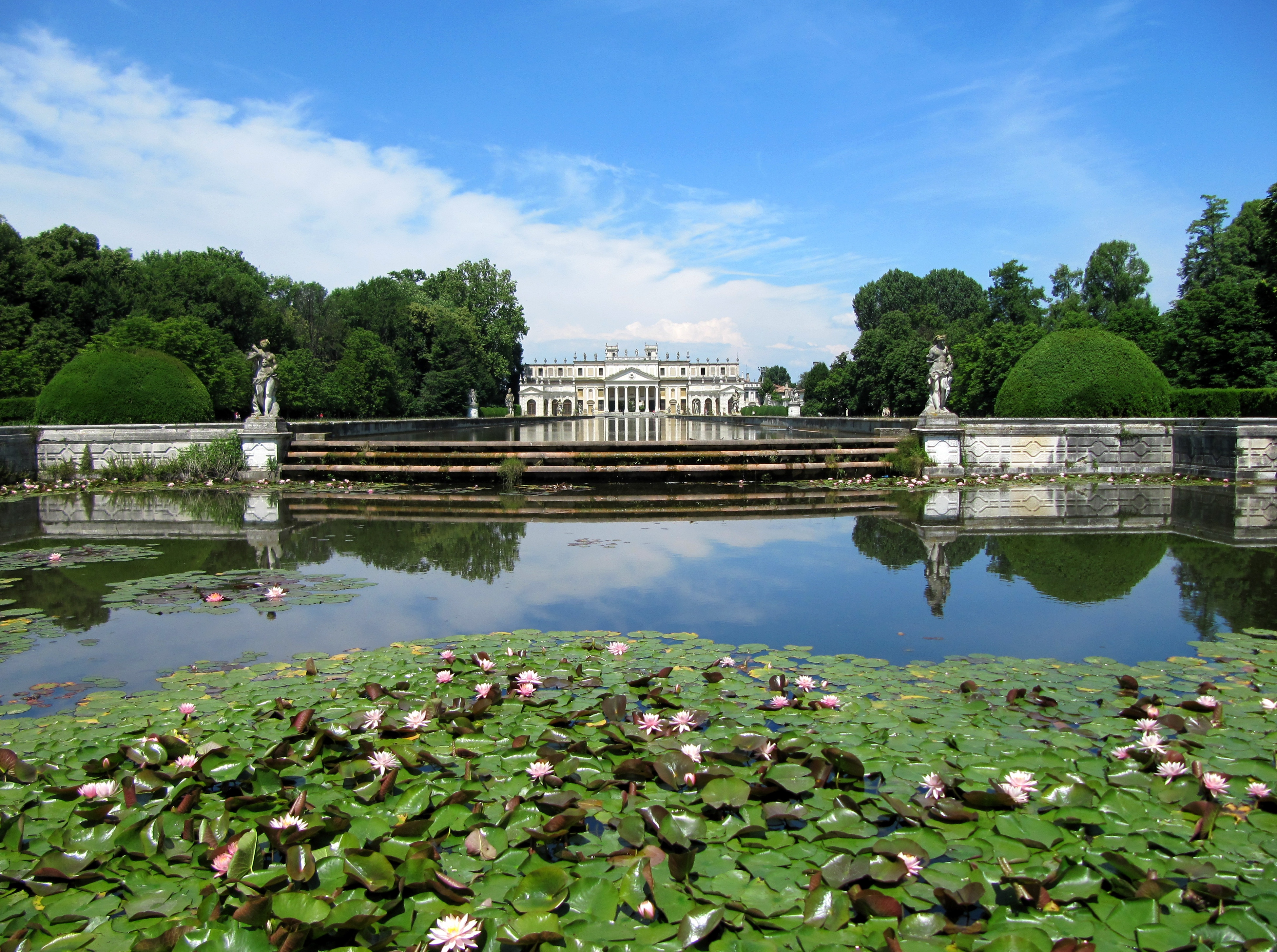 Ponds and stables of Villa Pisani at Stra.